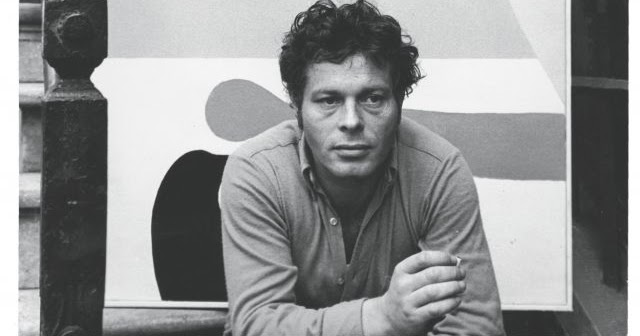 frank lodeizen